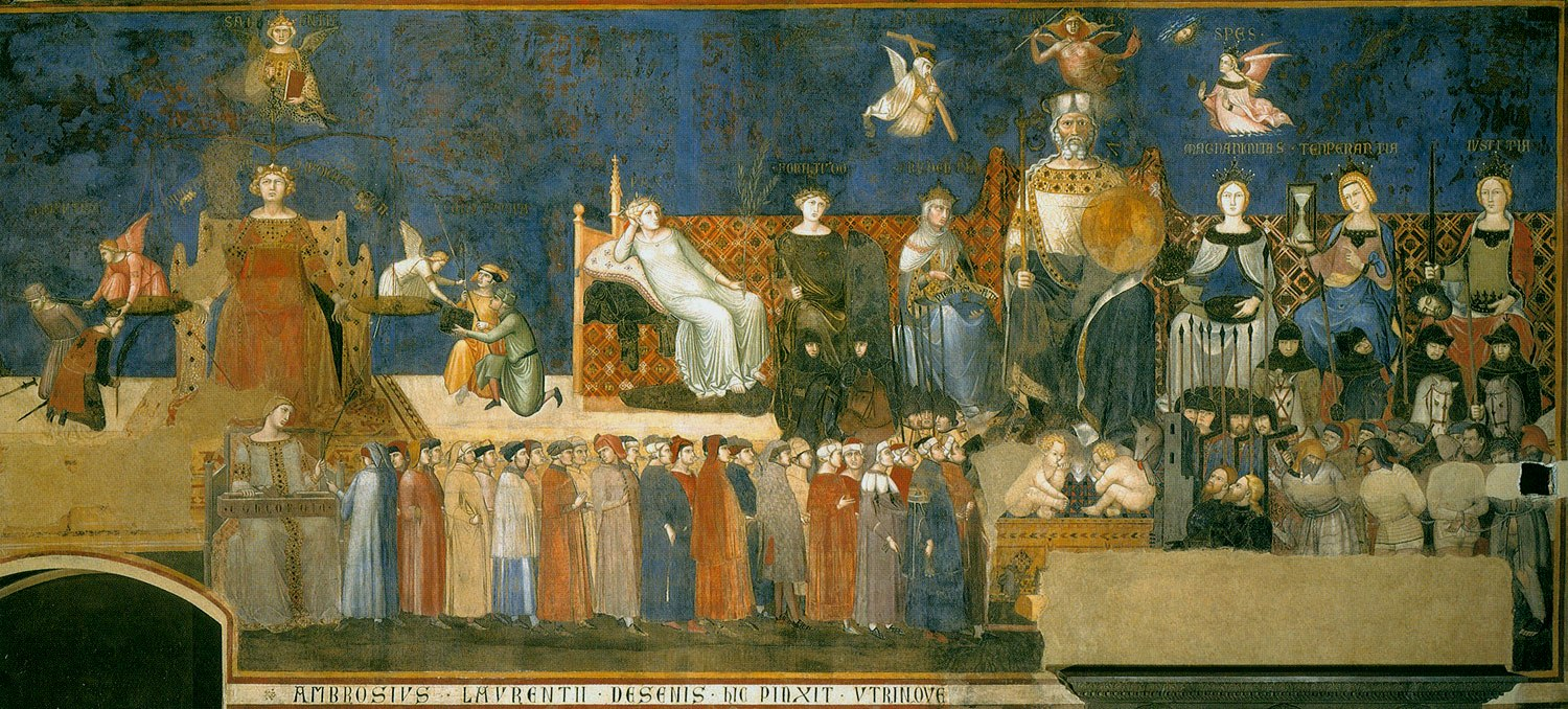 Allegory of good Government